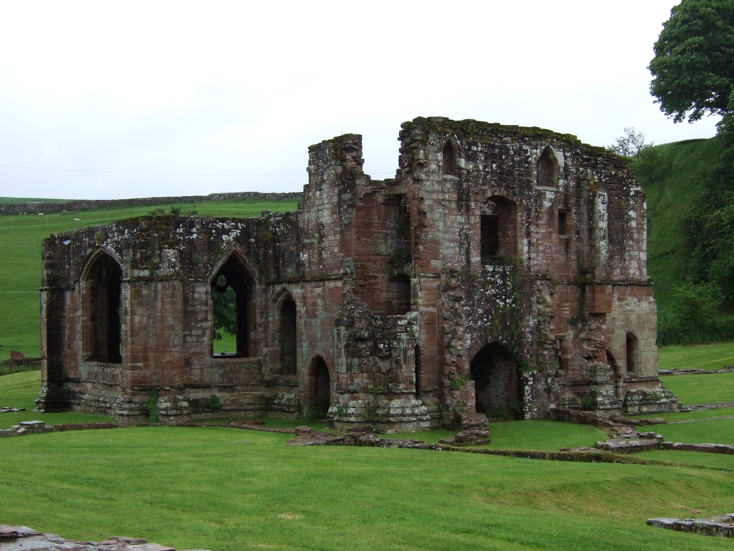 Furness Abbey Ruins, The Lake District